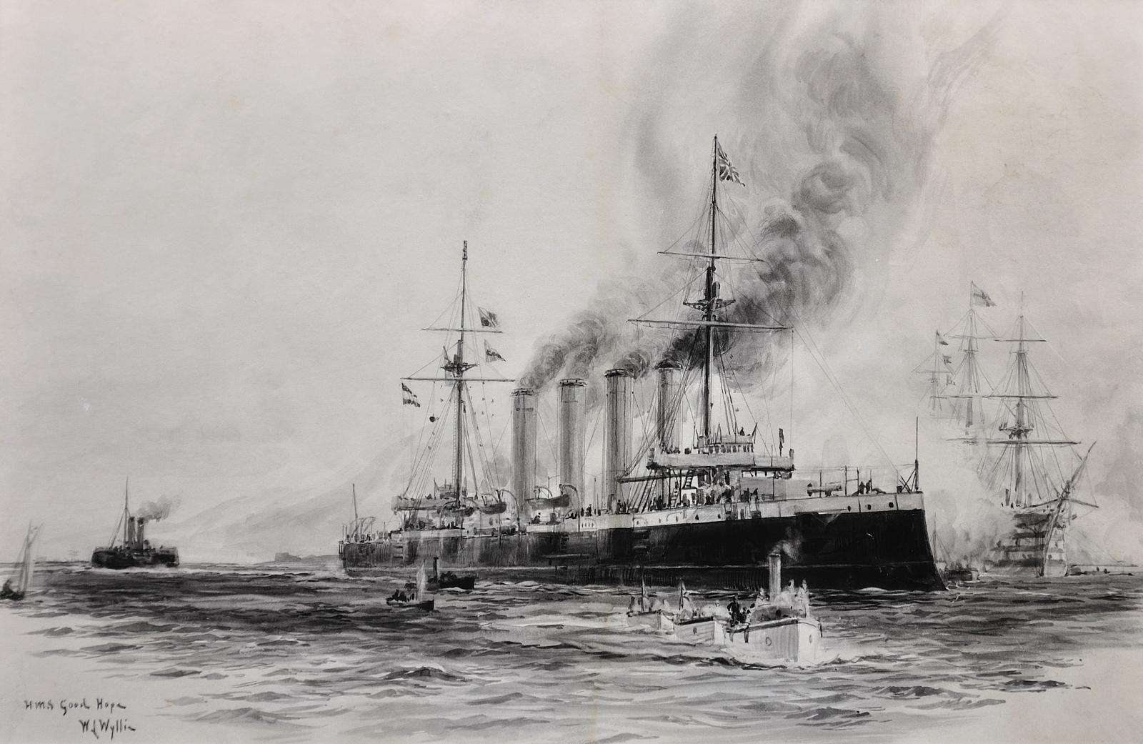 HMS Good Hope Signed & titled bas gauche Watercolour & ink 38cm x 25cm